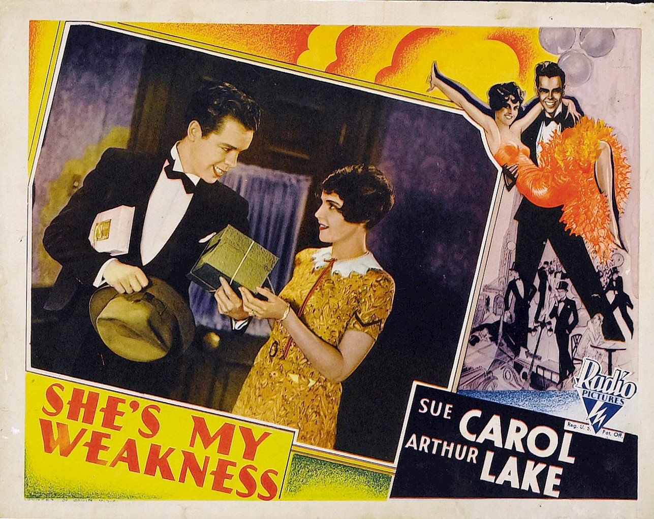 Poster for the 1930 film, She's My Weakness